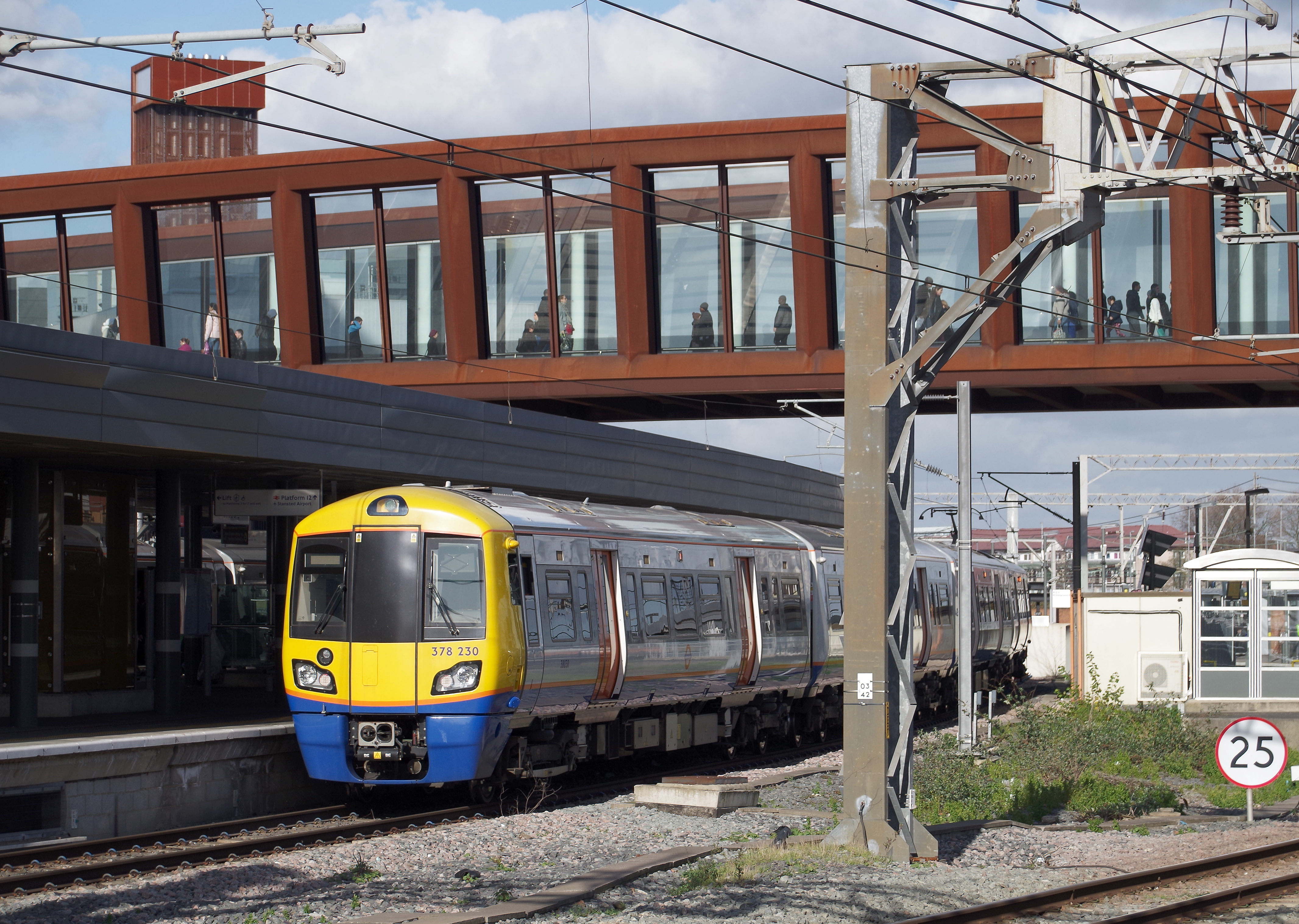 London Overground class 378 "Capitalstar" EMU 378230 stands at Stratford with a North London Line service from Camden Road. This was due to engineering works.